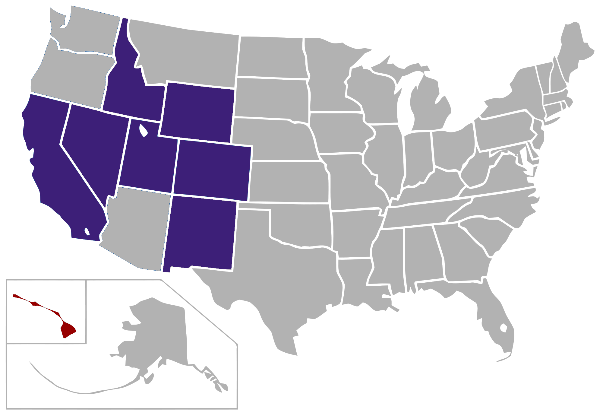 Mountain West Conference alignment for the 2012-13 academic year.